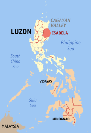 Map of the Philippines showing the location of Isabela